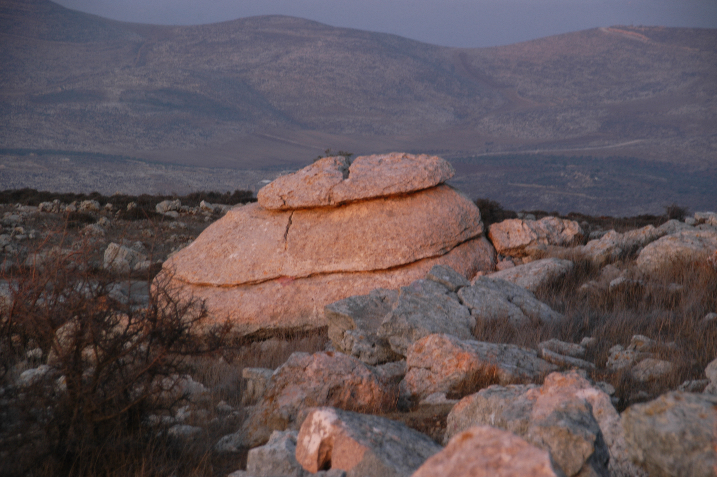 Geography of Israel